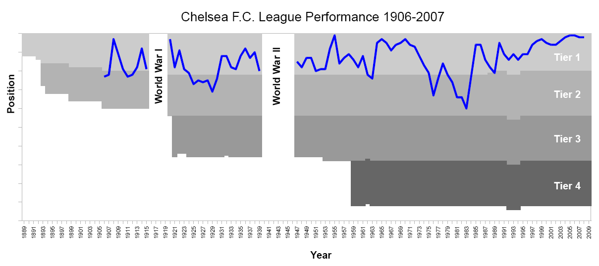 Chart showing the progress of Chelsea F.C. through the English Football League system since joining in 1905-1906 to 2007-08. The "notches" and "bumps" in the different tiers show when changes were made in the number of teams playing in each division.